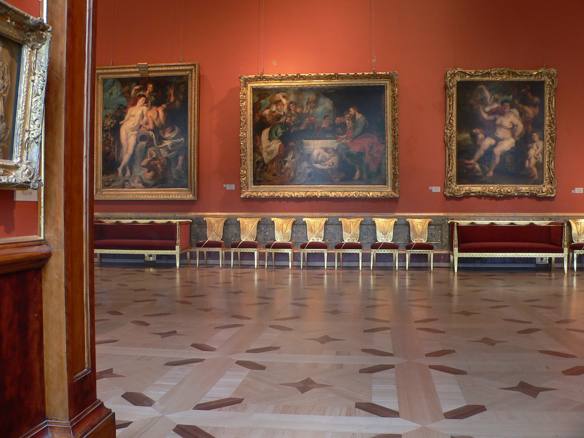 Ermitage Interior.